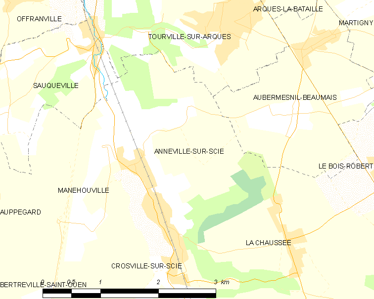 Map of French municipality Anneville-sur-Scie